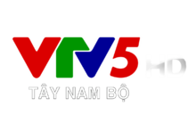 Logo for VTV5 HD - Tay Nam Bo